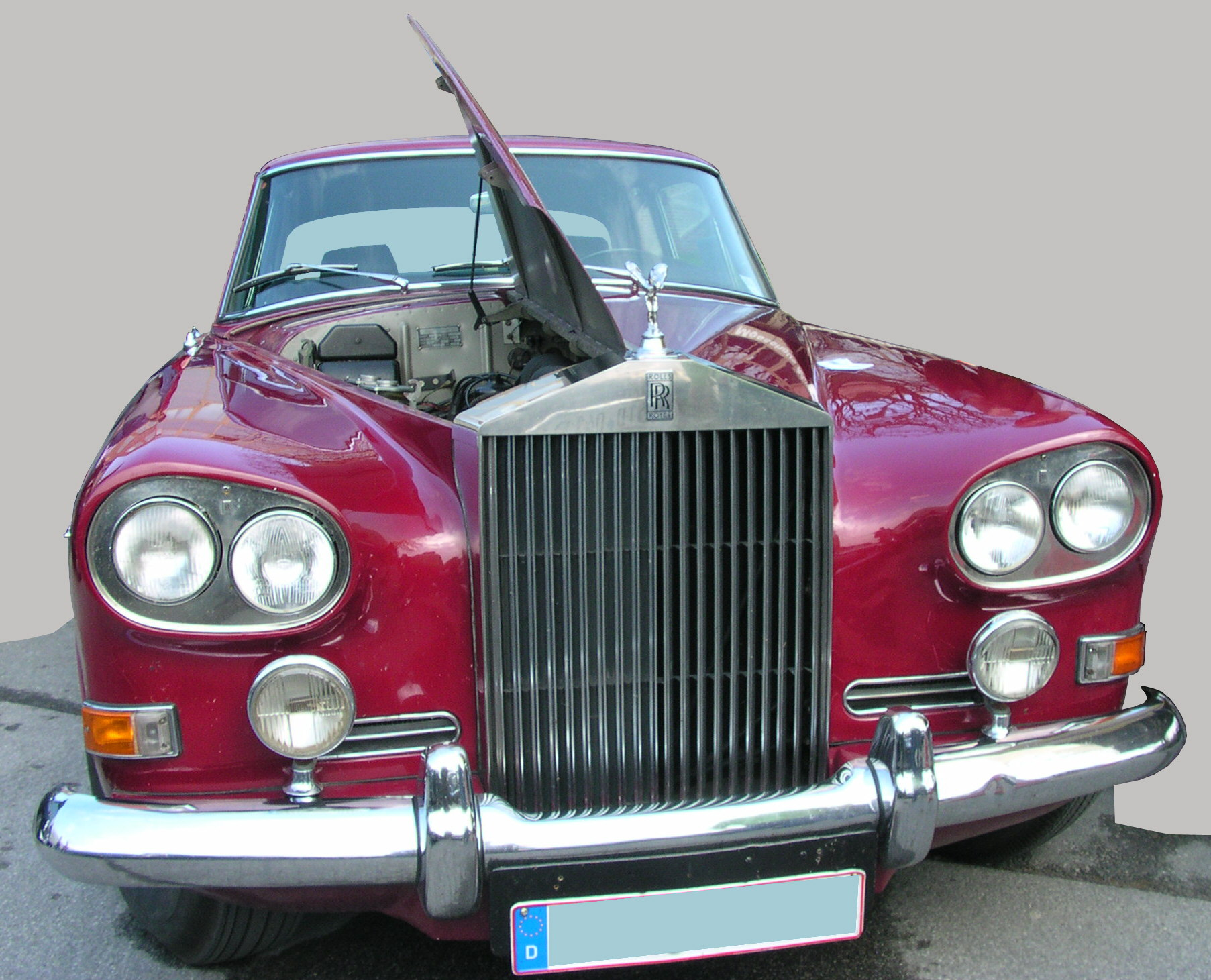 Essen Techno-Classica 2007. A notable, but not particularly favoured among classic car circles, Silver Cloud III version is the "Chinese Eye", featured on the Mulliner-Park Ward coachbuilt cars, of which only about 100 were made